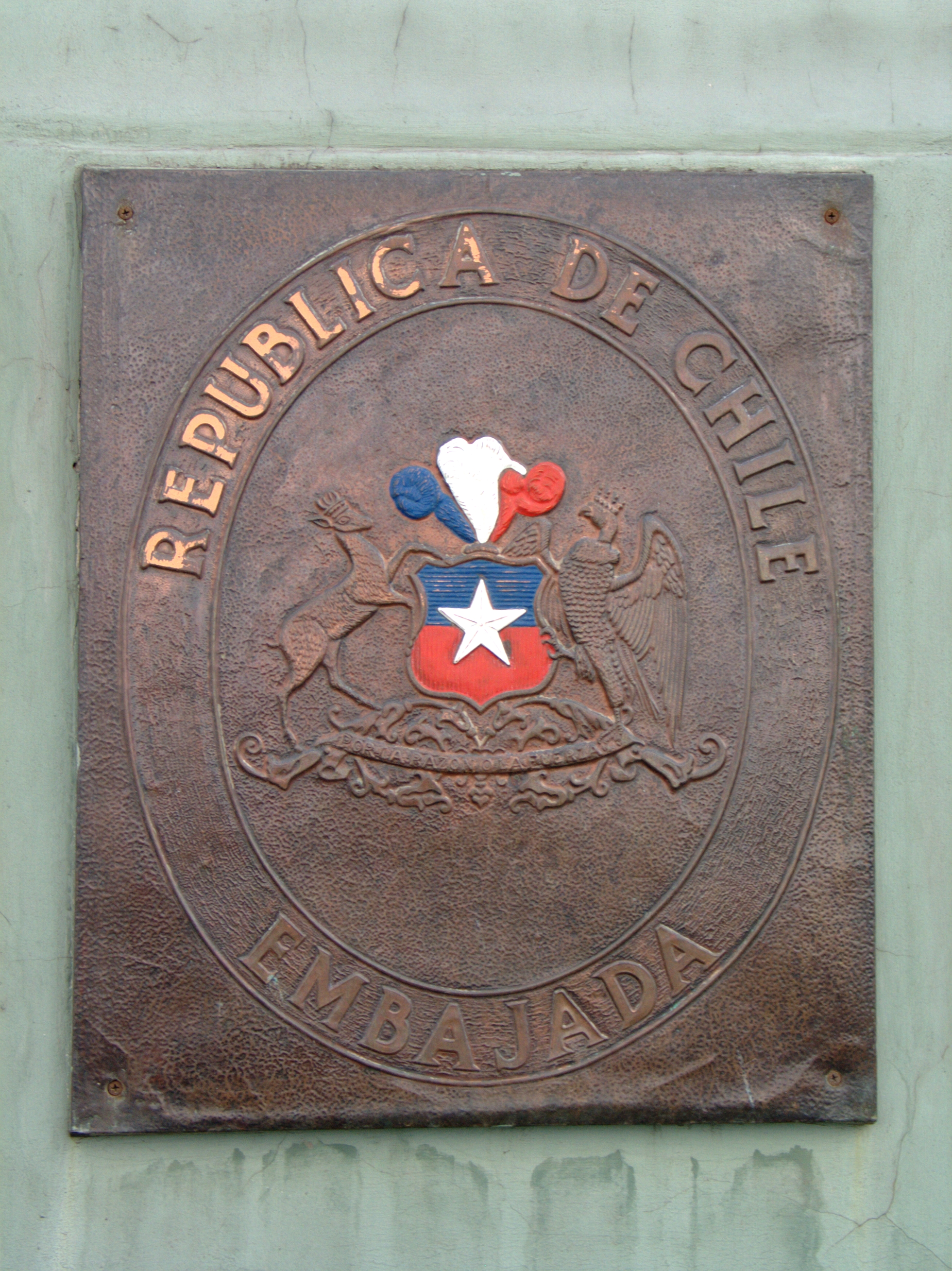 The plate on the Embassy of Chile in Moscow (Denezhnyi side-street 7).